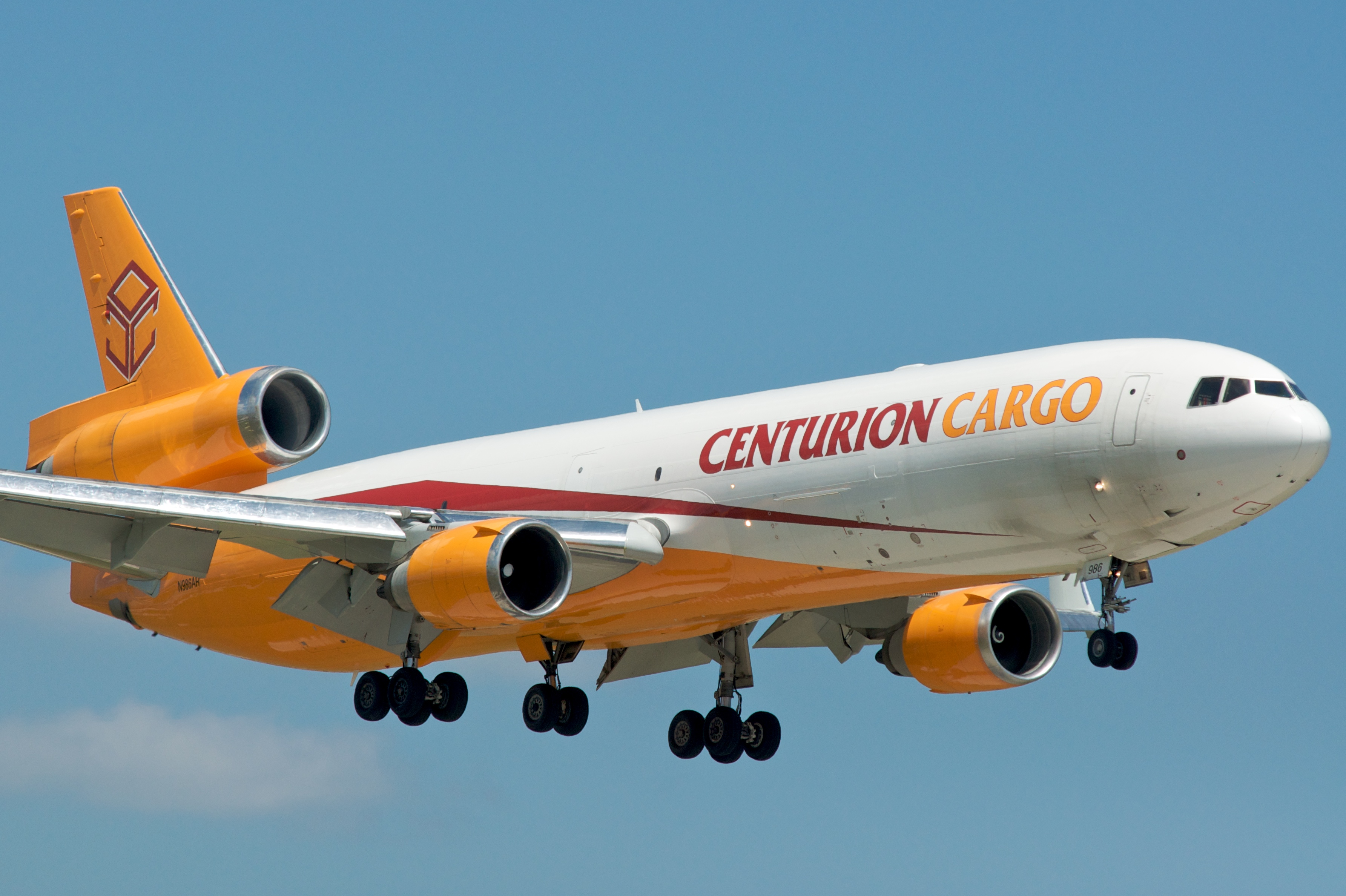 Centurian Cargo MD-11F on short final, runway 9, Miami International Airport